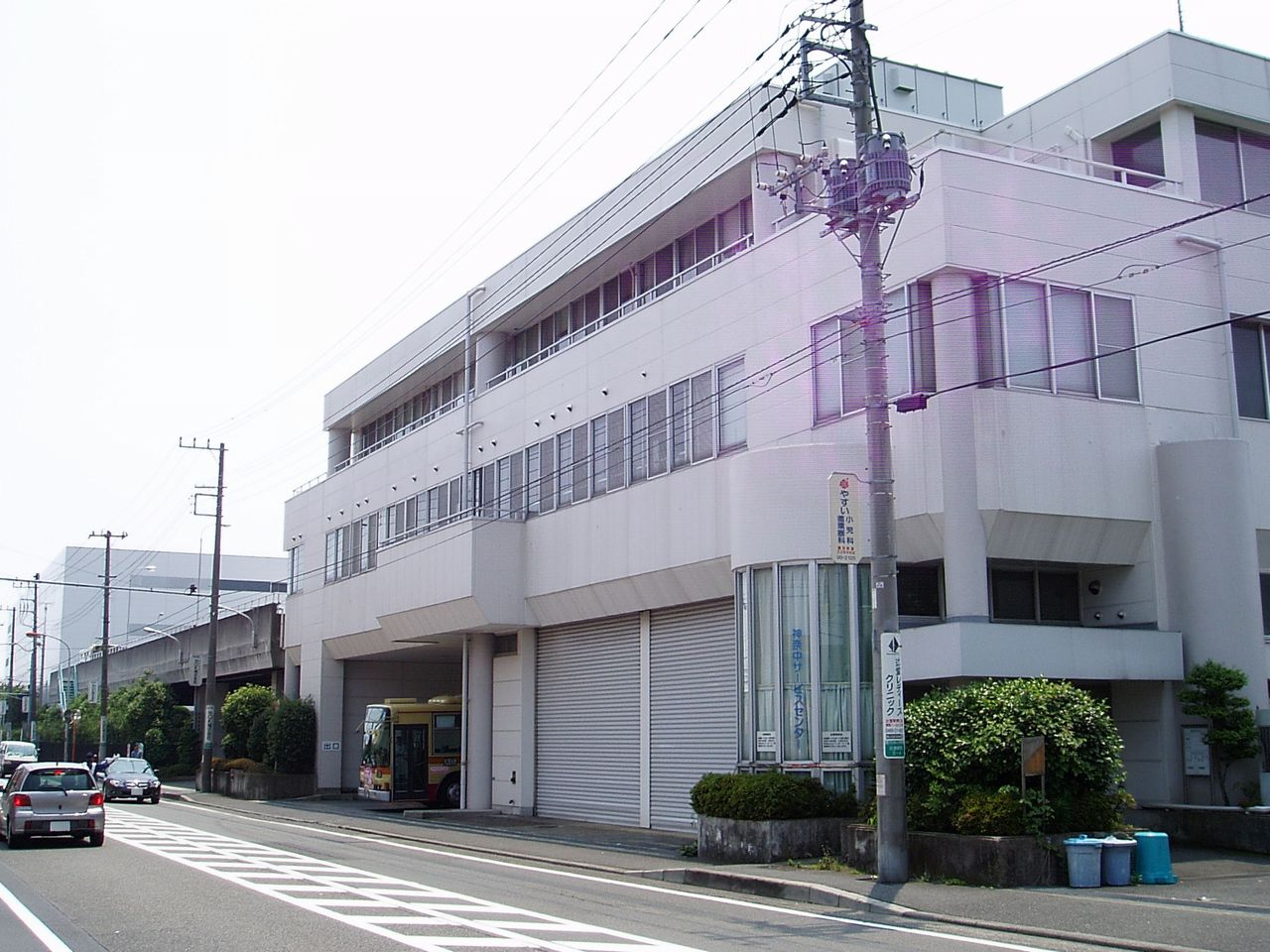 Kanagawa Chuo Kotsu Fujisawa Branch